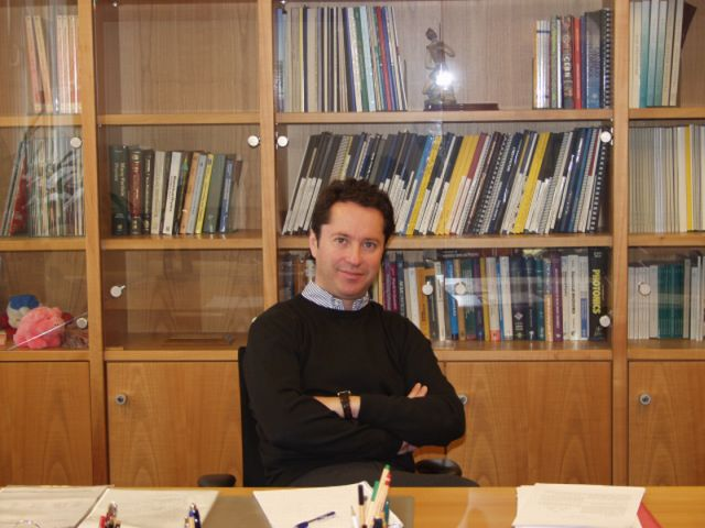 Prof. Juan Ignacio Cirac in his office. Max Planck Institut